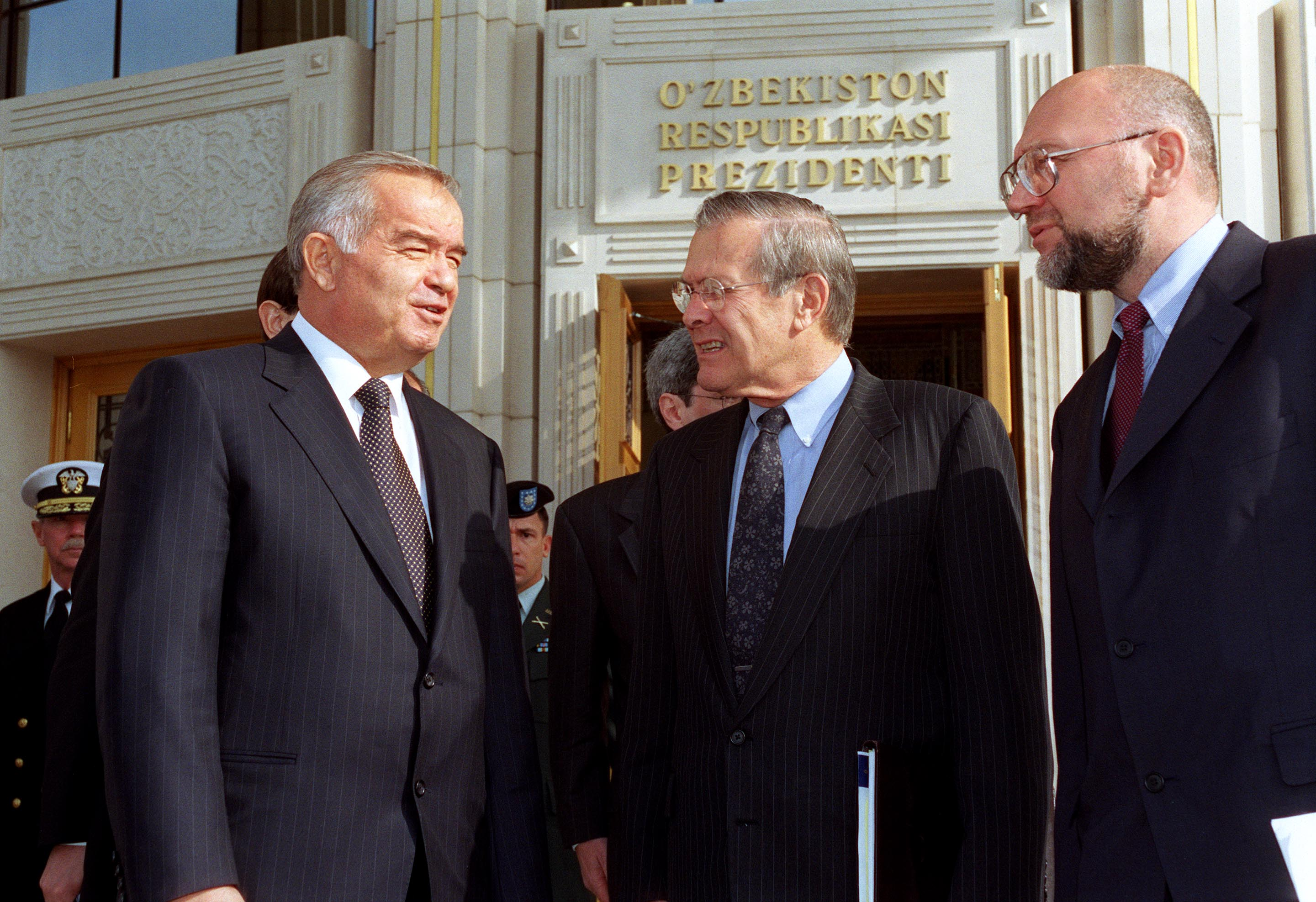 Secretary of Defense Donald H. Rumsfeld (center) talks informally with Uzbekistan President Islom Karimov (left) following their meeting in the Presidential Palace in the capital city of Tashkent on Nov. 4, 2001. Rumsfeld and the Karimov discussed the developing bilateral relationship between the military agencies of the two nations. Standing at the right is Alexei Sobchenko, an interpreter with the Department of State.